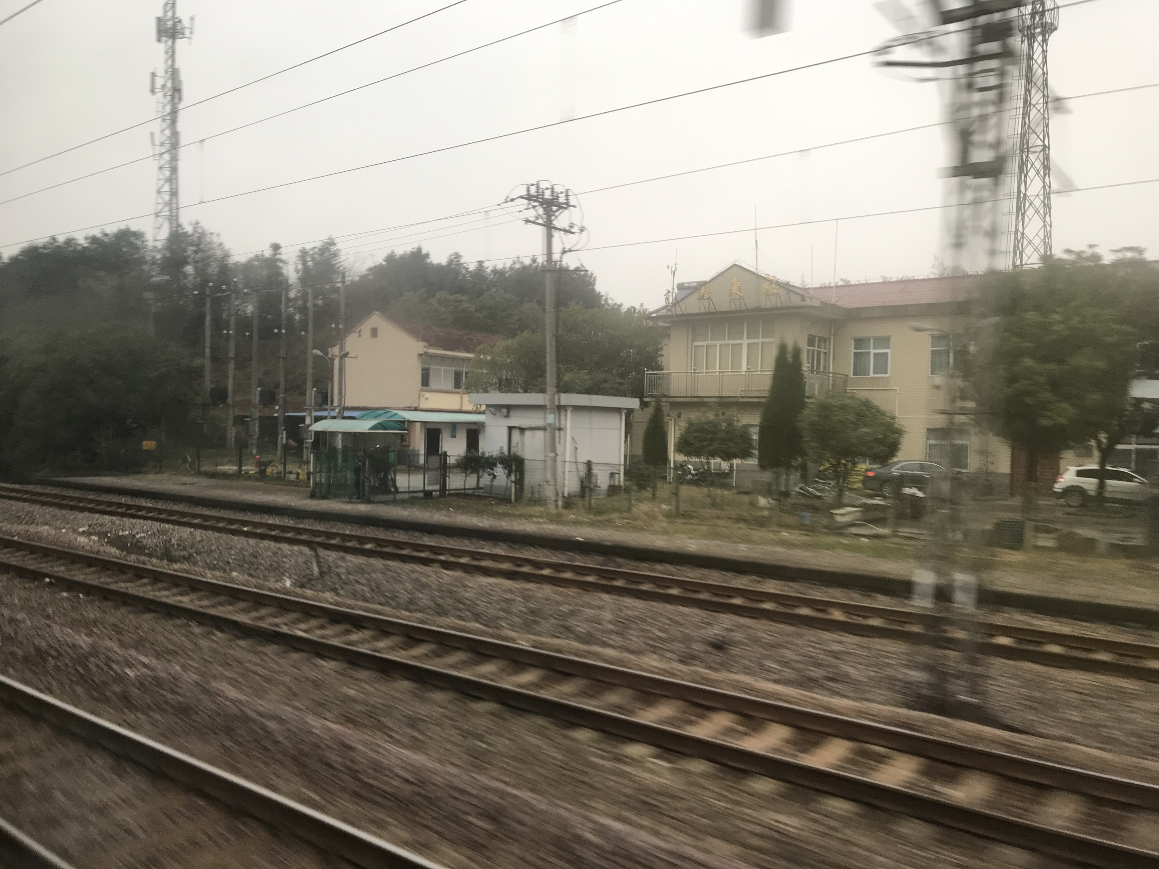 201901 Station Building of Longyoudong (1)